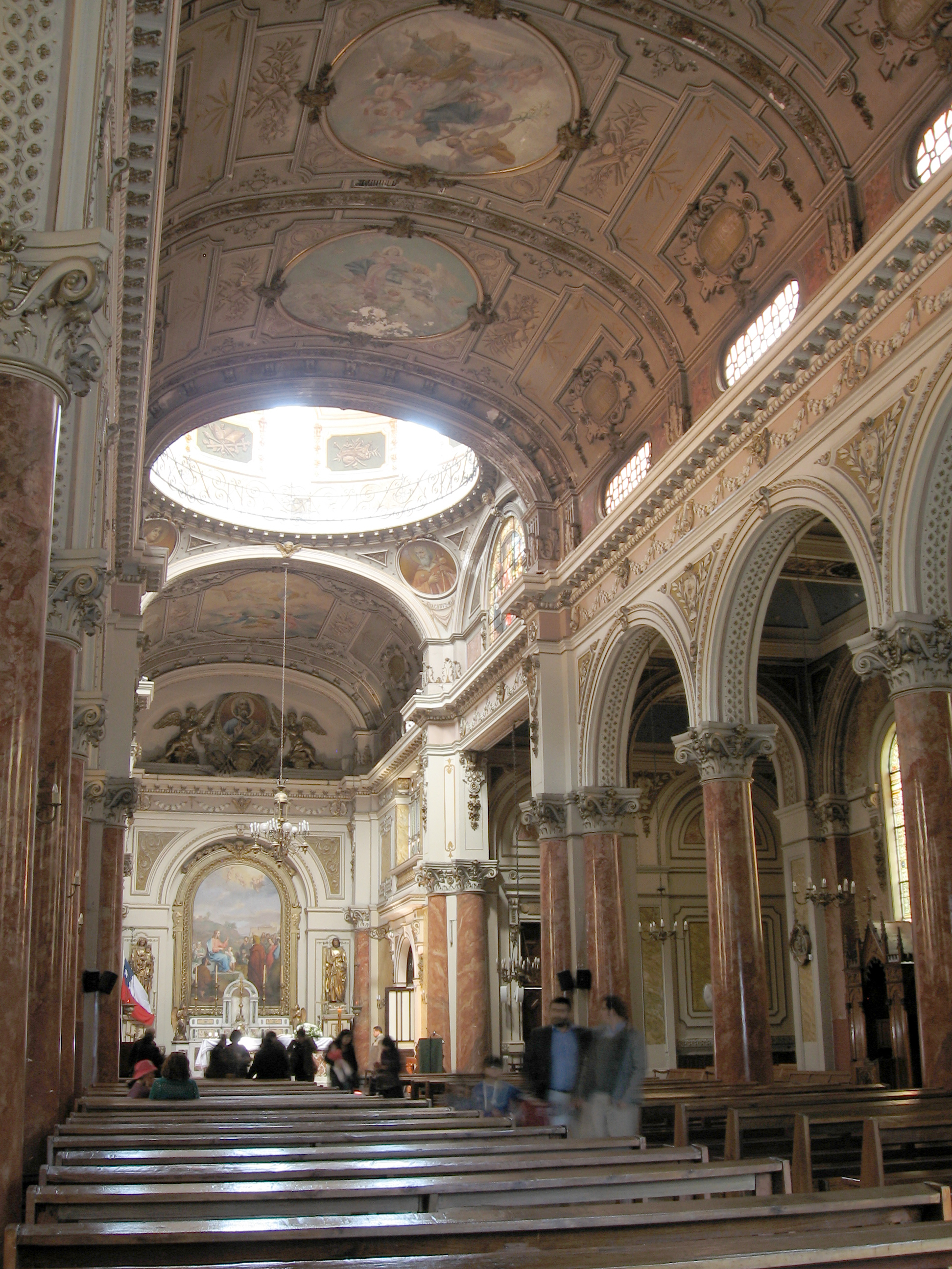 This is a photo of a national monument in Chile: 873